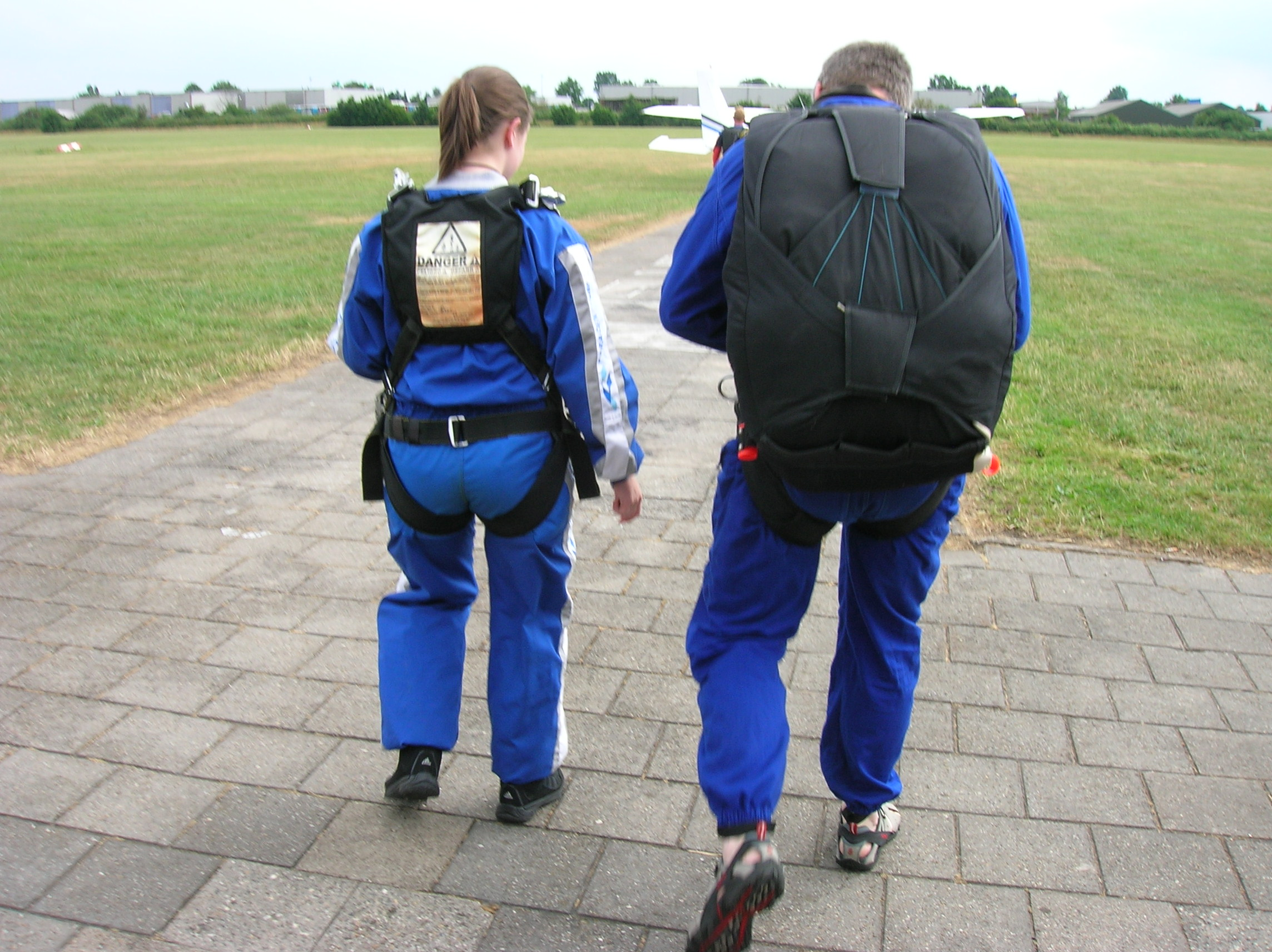 Two people about to jump: one with a parachute and one with a harness